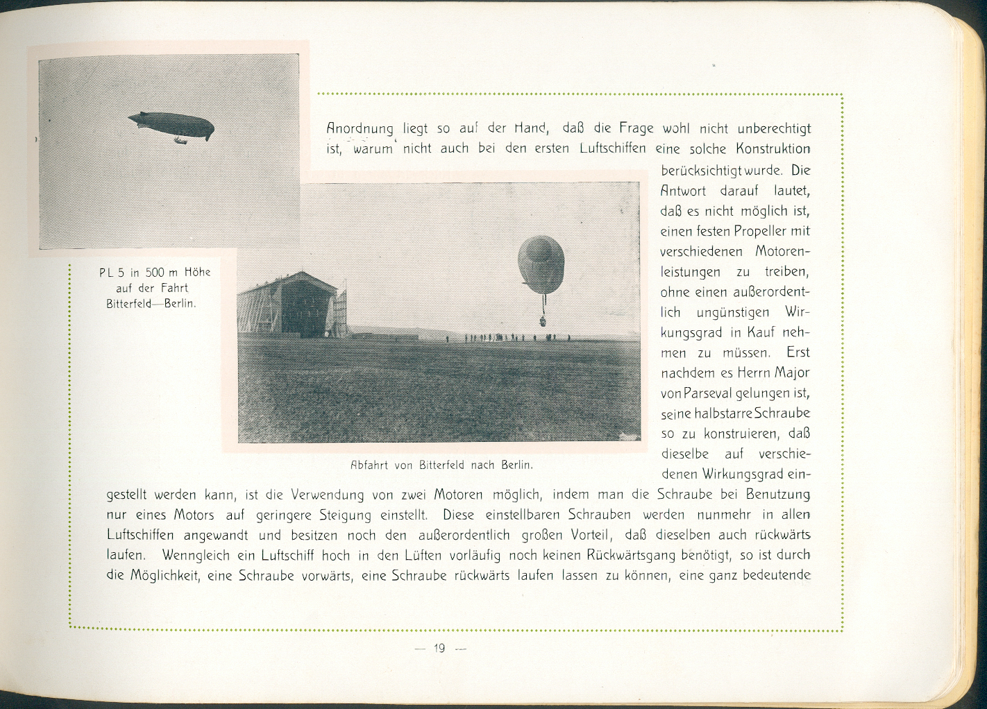 Page 19 of the Broschuere der Luftfahrzeug-GmbH showing PL 5 at 500 metres above Bitterfeld Berlin